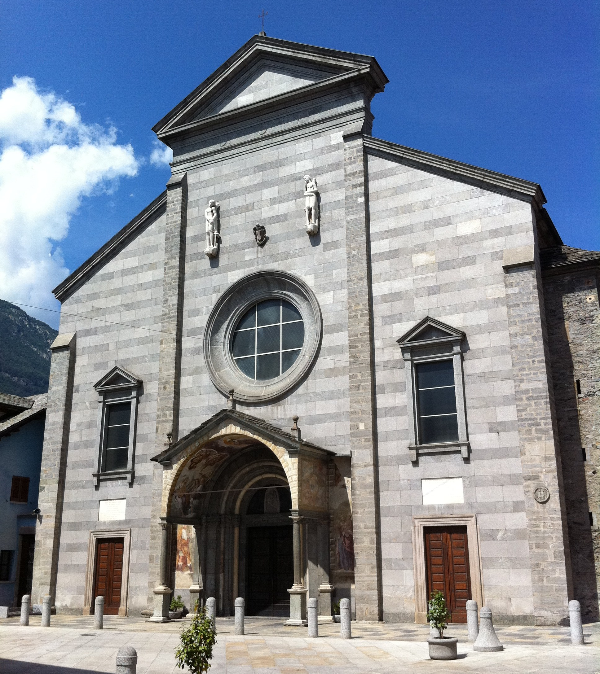 St. Gervasio and Protasio collegiate church, Domodossola